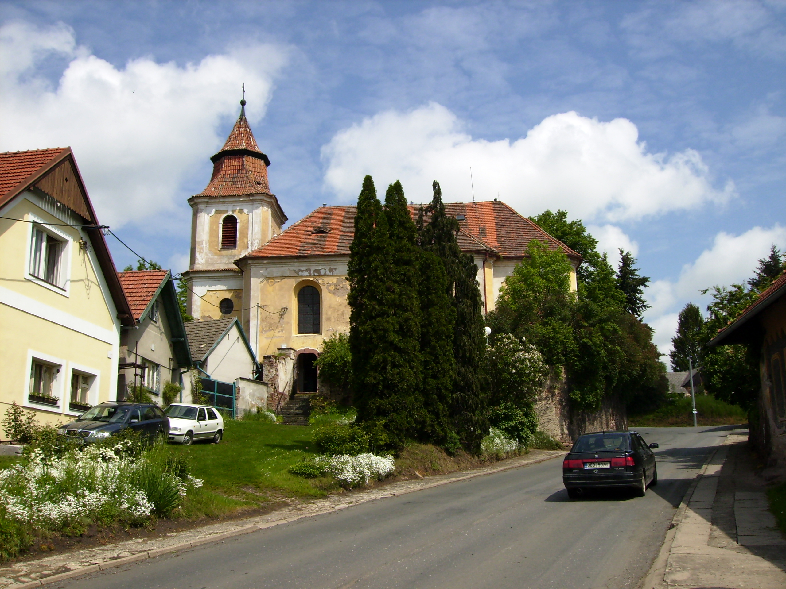 St Wenceslas church in Konojedy, Prague-East District, Czech Republic